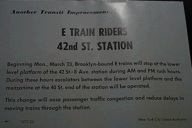 This poster was created by the New York City Transit Authority and put into subway cars to announce a change in E service at the 42nd Street station. Southbound E trains, during rush hours, began using the lower level.